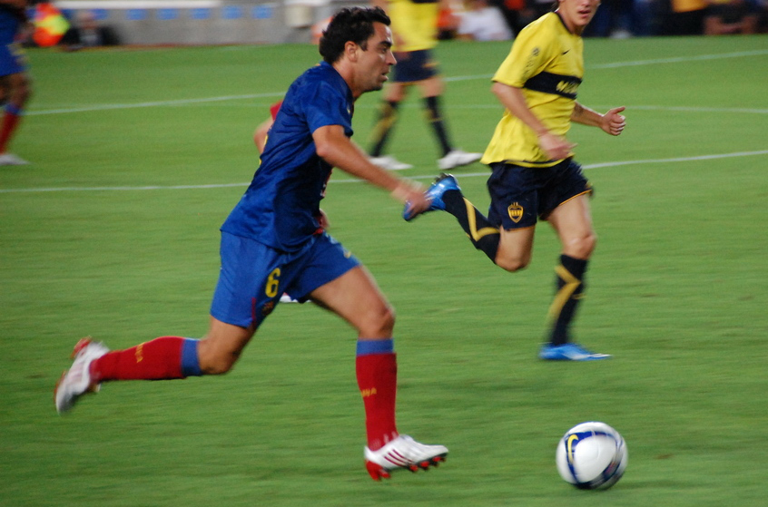 A photo of Xavi, taken during Joan Gamper trophy 2008 by Shay and cropped by me